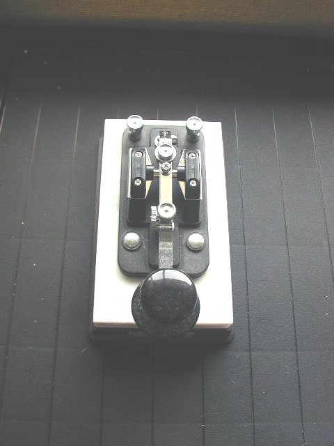 Telegragh keys , taken by User:Ultratomio at June 28, 2004(JST).